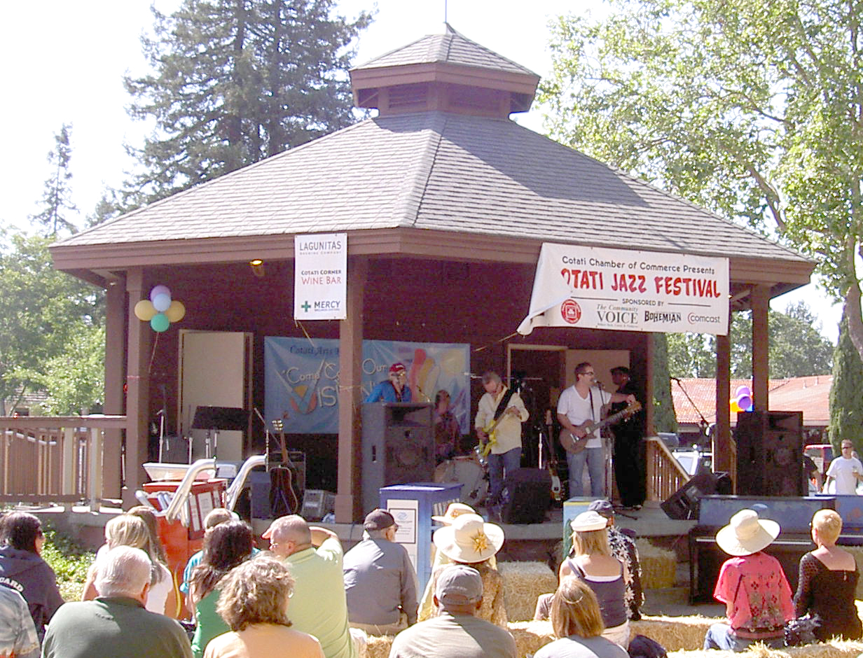 Soul Shine Band performing on the main stage of the 2010 Cotati Jazz Festival in Cotati, California, USA